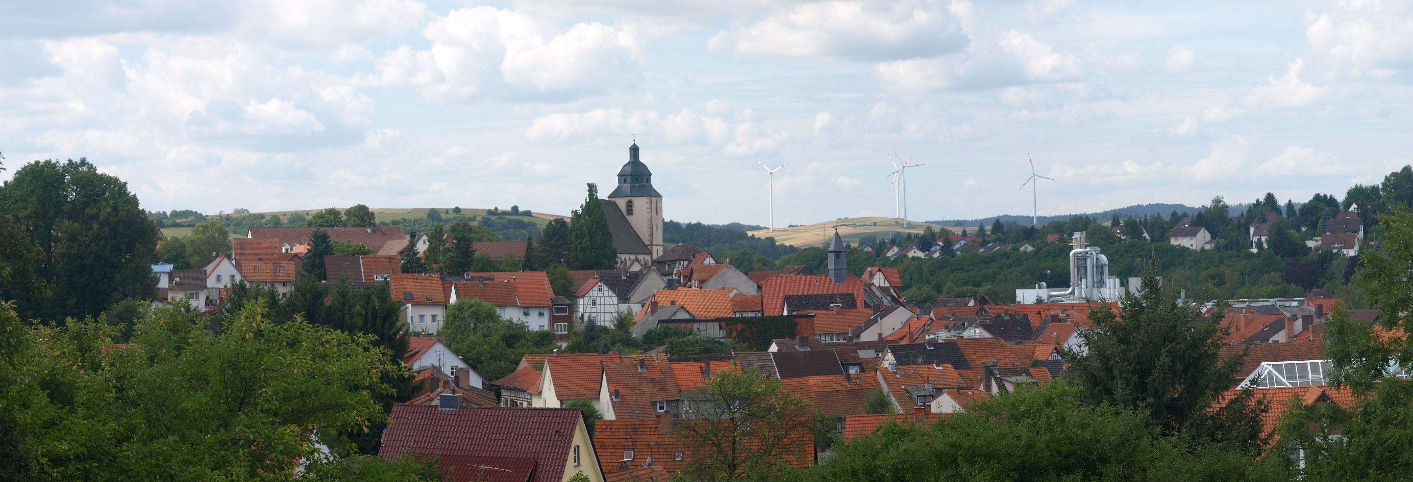 Panoramic view of Sontra. Taken from the North